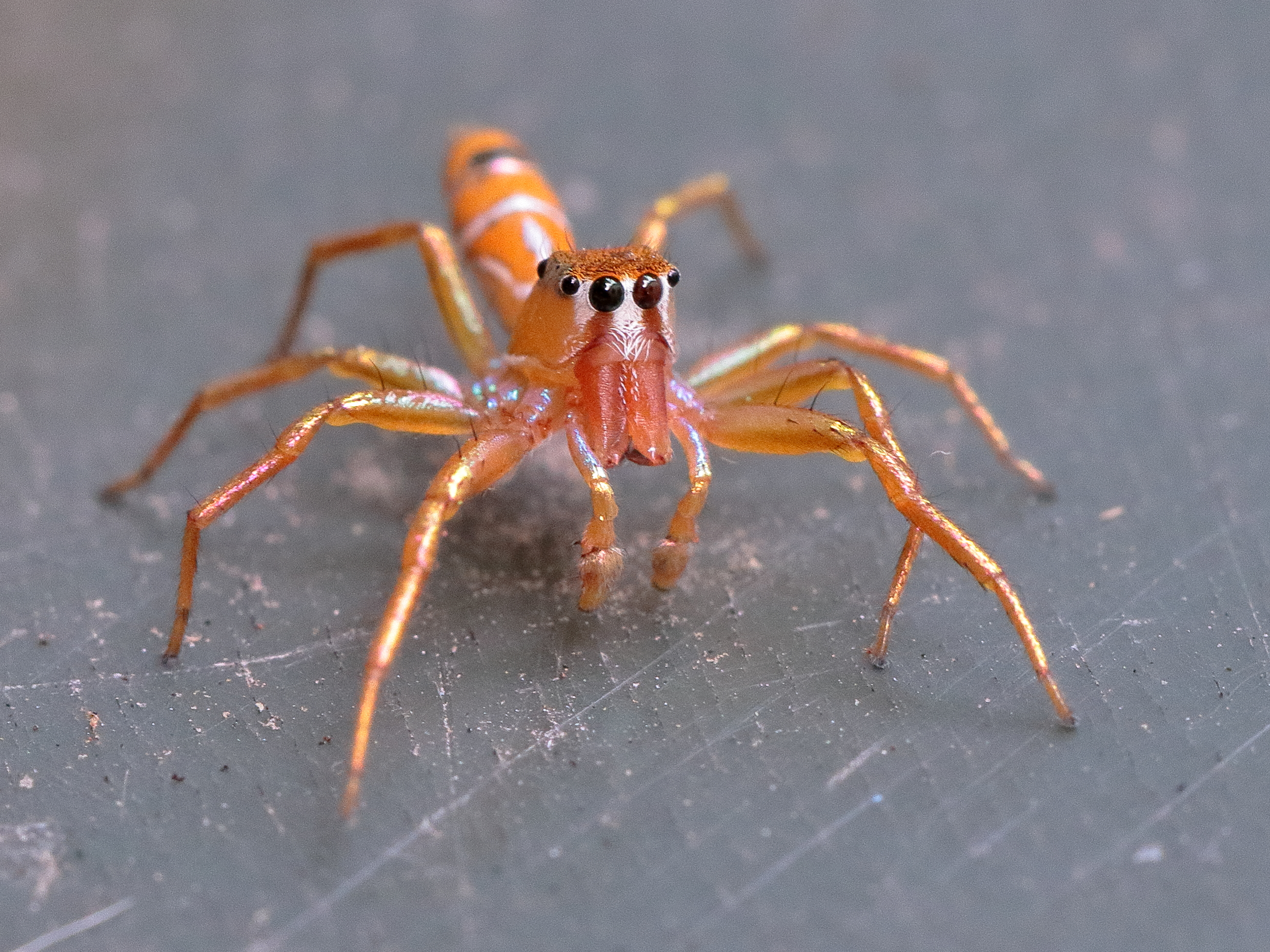 A beautiful reflective metallic looking gold, yellow, black and light blue Jumping Spider found in PNG, Australia and Micronesia. Its favourite food is the Green Tree Ant. This one is a male and is 6 mm in body length.